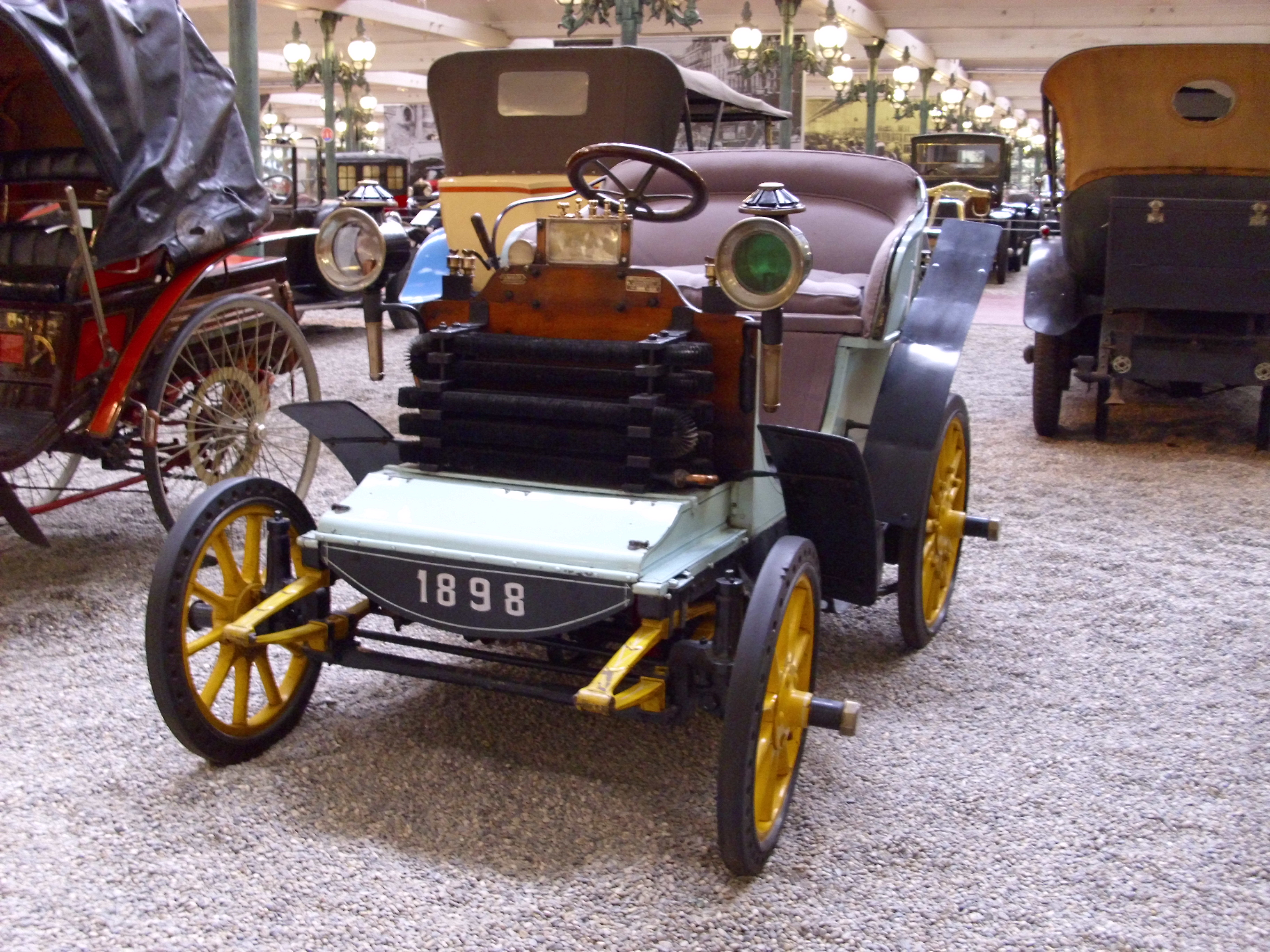 Bardon Phaeton of 1899. (The car's museum placard misdates it; see Category:1899 Bardon Phaeton in the Musée National de l'Automobile for details.)